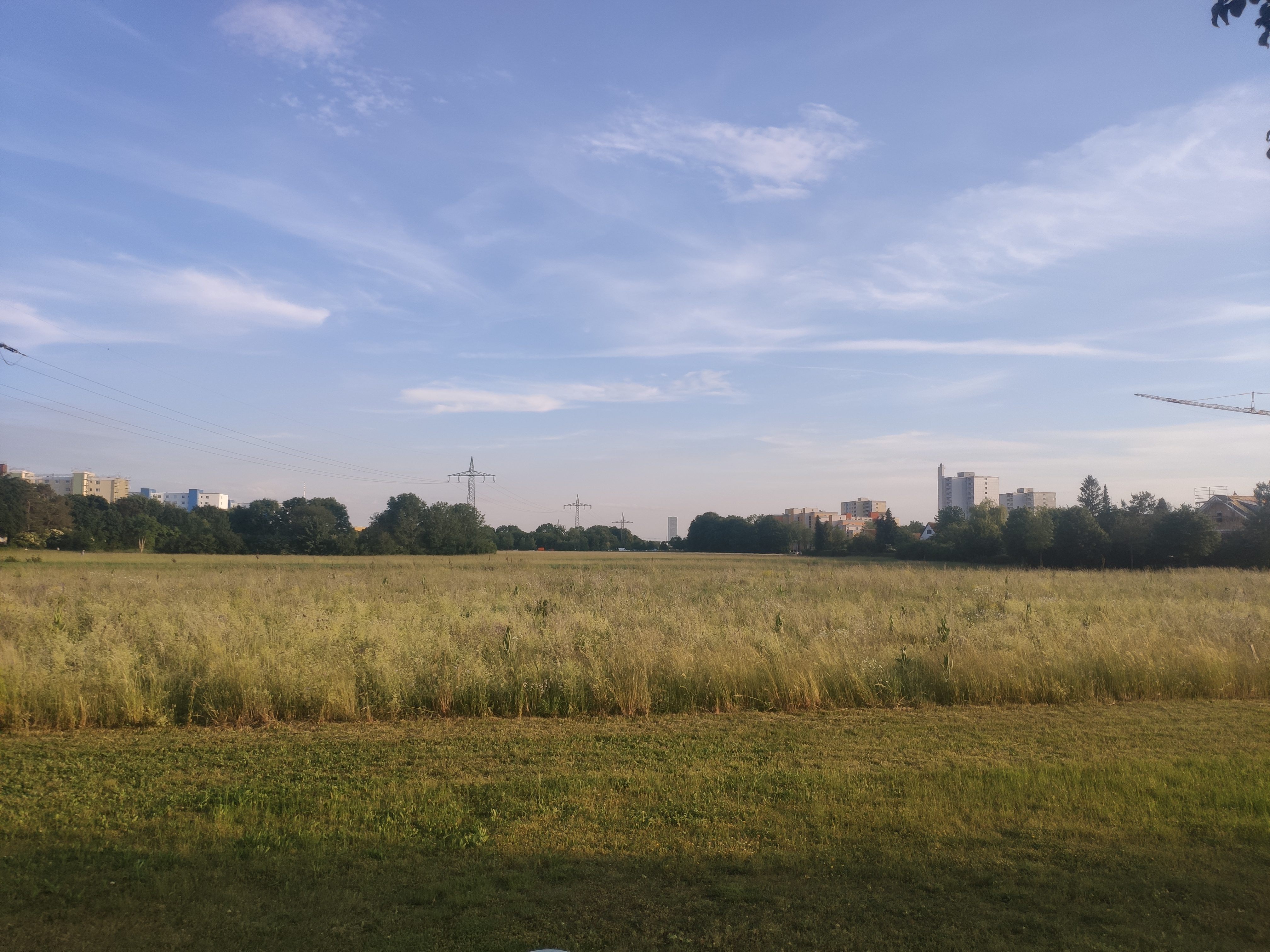 Feldmochinger Anger